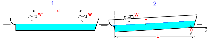 Ship longitudinal movements of weights